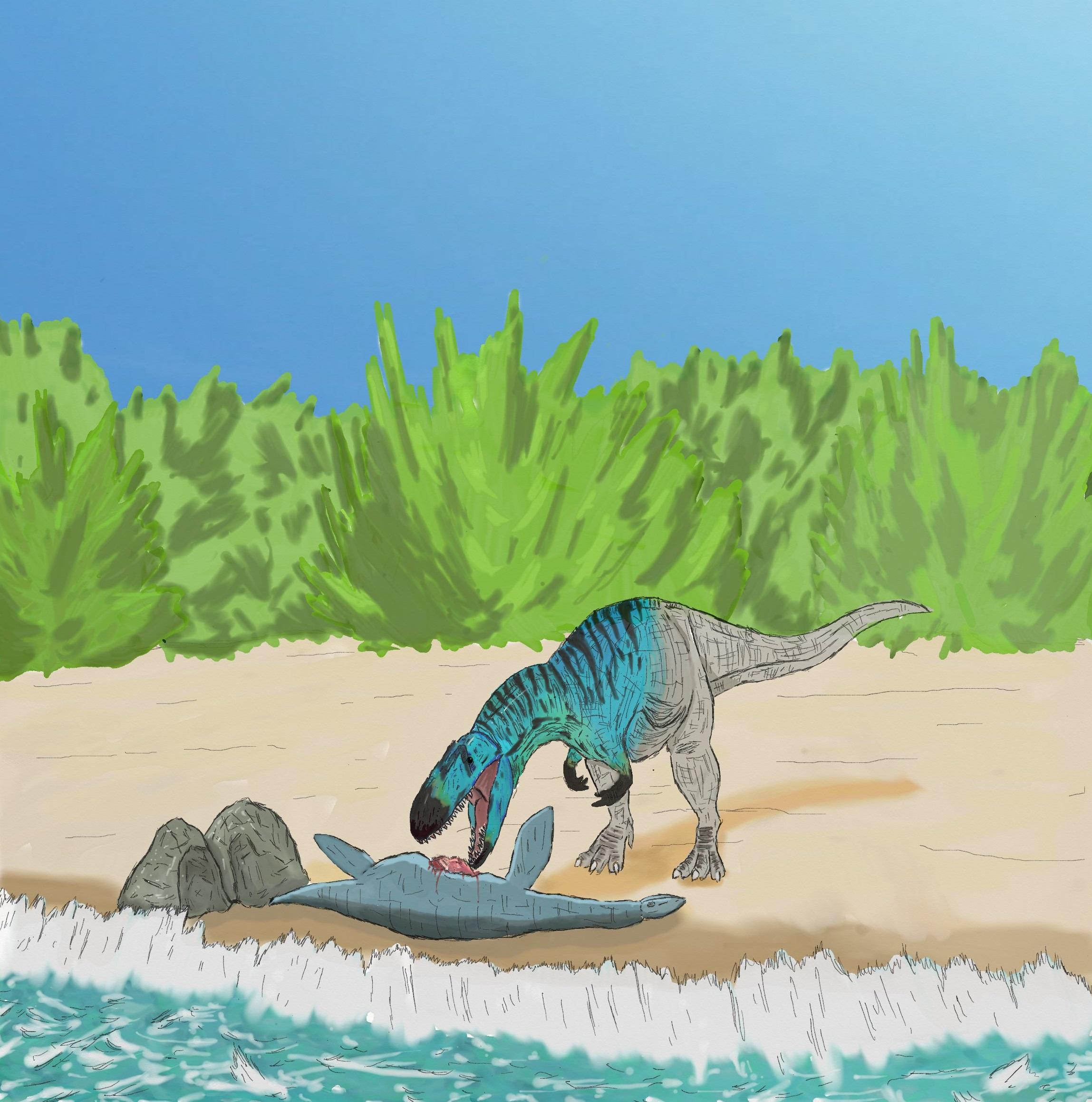 This scene represents the theropod Streptospondylus feasting on the beached carcass of an unidentified plesiosaur. This takes place 160 million years ago in Normandy, France